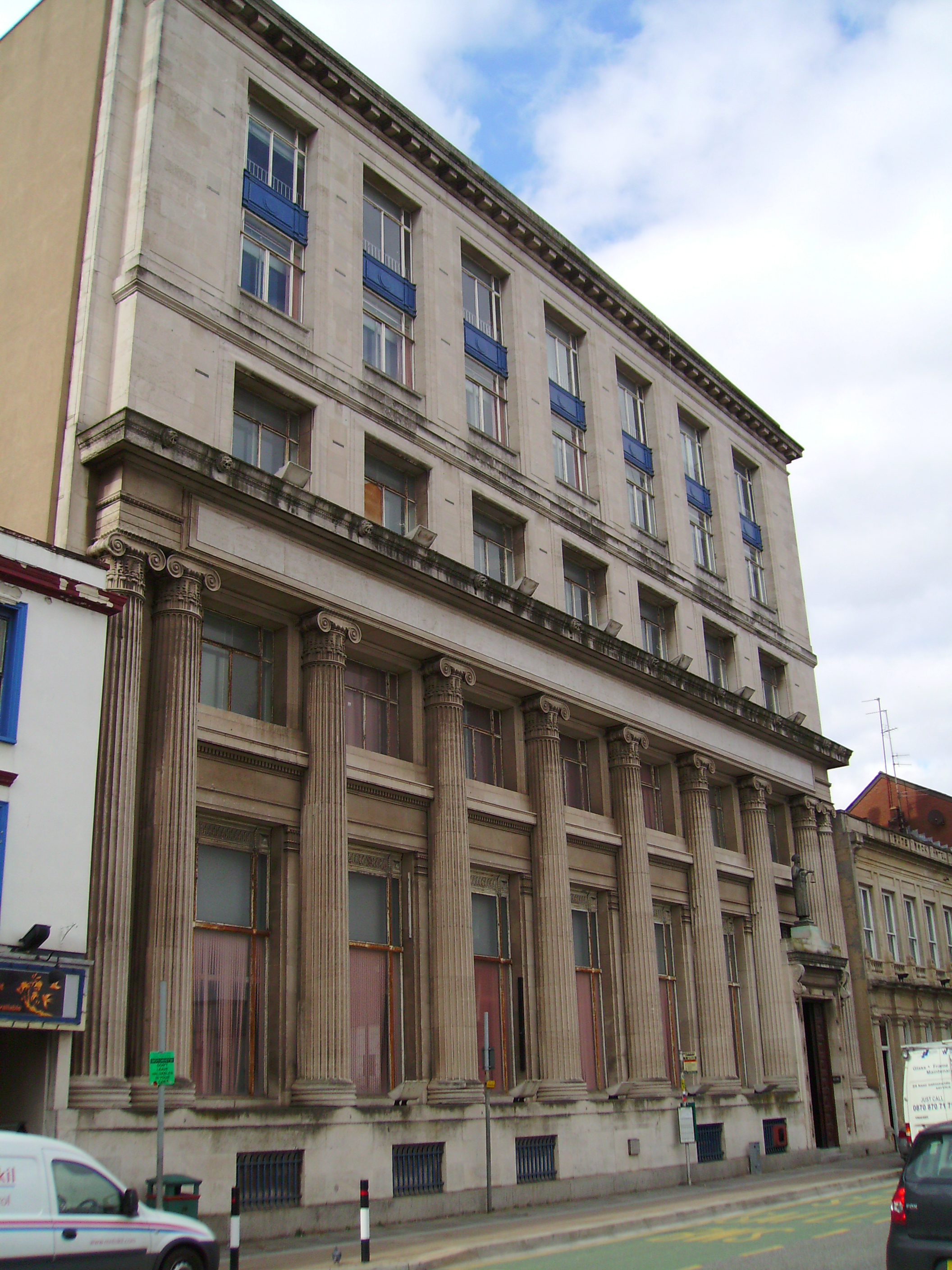 Former National Westminster Bank building, 113-116 Bute Street, Cardiff Bay, Wales